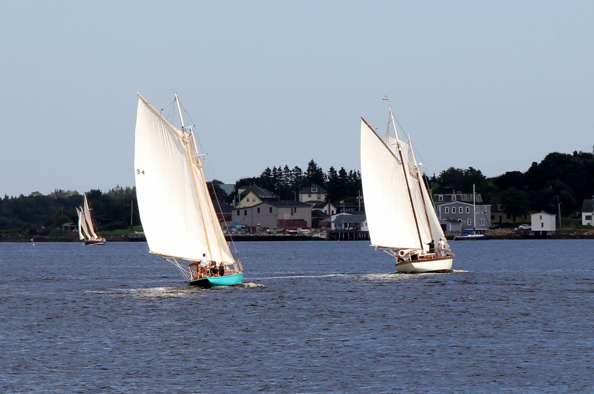 Sailors Coming Home To Riverport, Nova Scotia, Canada